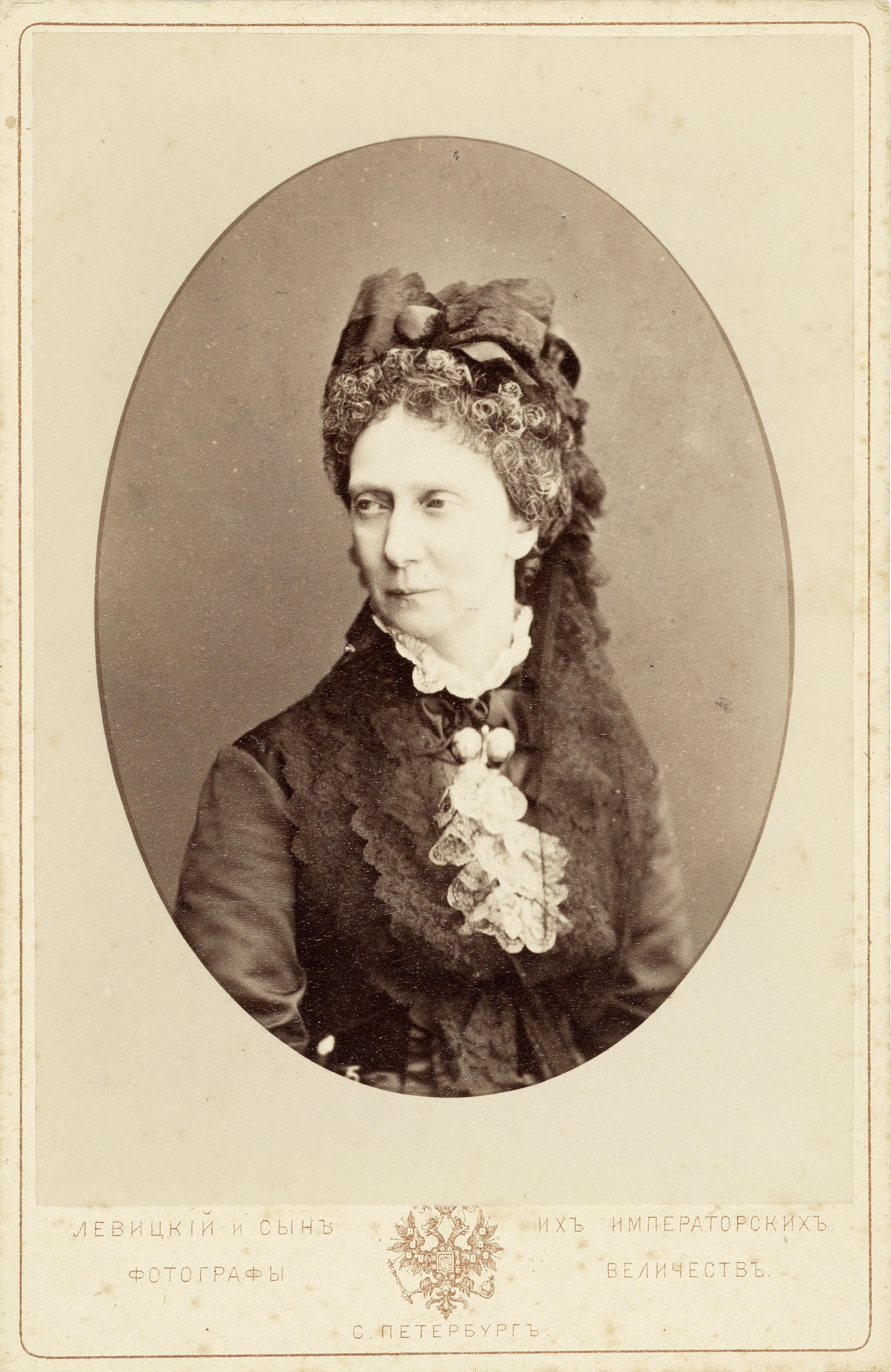 Empress Maria Alexandrovna of Russia (Marie of Hesse)